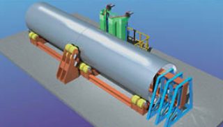 The space industry has approved the use of friction stir welding for longitudinal seams in components of launch vehicles and fuel tanks.